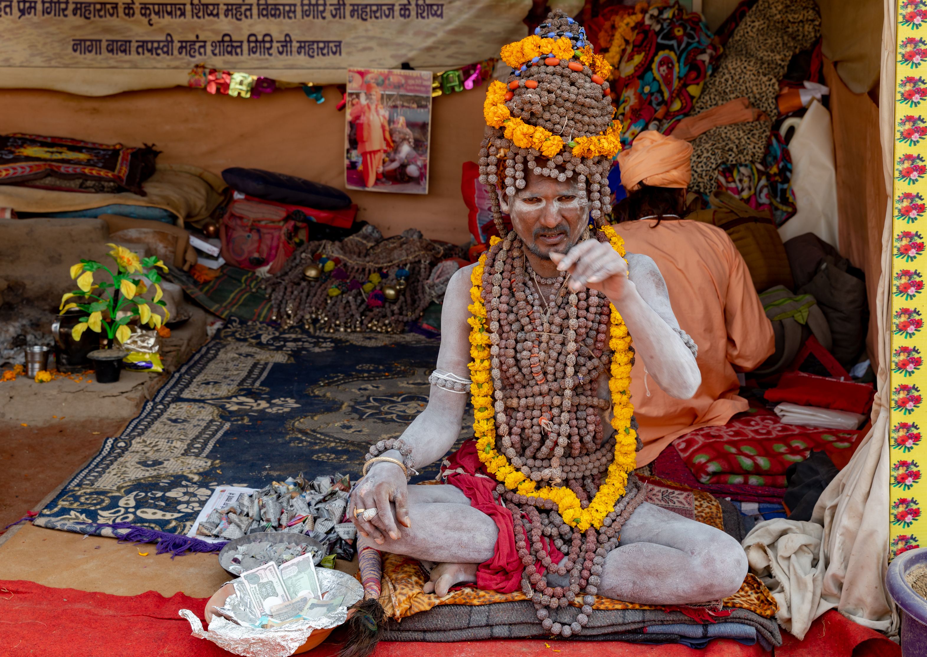 Allahabad - Prayagraj Naga Sadhu A sadhu, also spelt saddhu, is a religious ascetic, mendicant (monk) or any holy person in Hinduism and Jainism who has renounced the worldly life. Naga = naked. Kumbh Mela or Kumbha Mela is a mass Hindu pilgrimage of faith in which Hindus gather to bathe in a sacred or holy river. The main festival site is located on the banks of a river: the confluence (Sangam) of the Ganges and the Yamuna and the invisible Sarasvati at Allahabad. Bathing is thought to cleanse a person of all their sins.